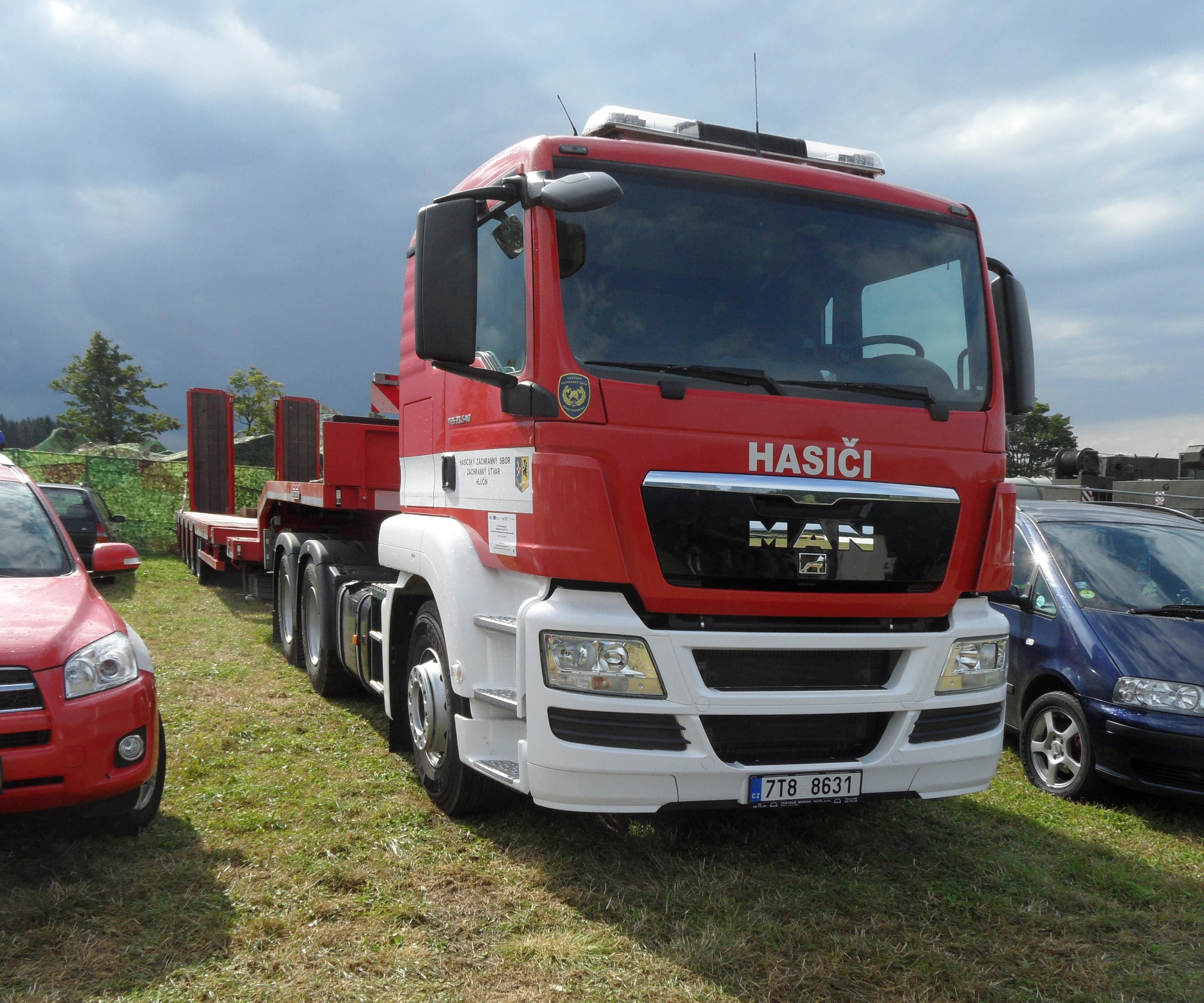 Akce Cihelna 2014 H01. Static Presentations: Special Fire-fighting Vehicle, Králíky, Ústí nad Orlicí District, the Czech Republic.